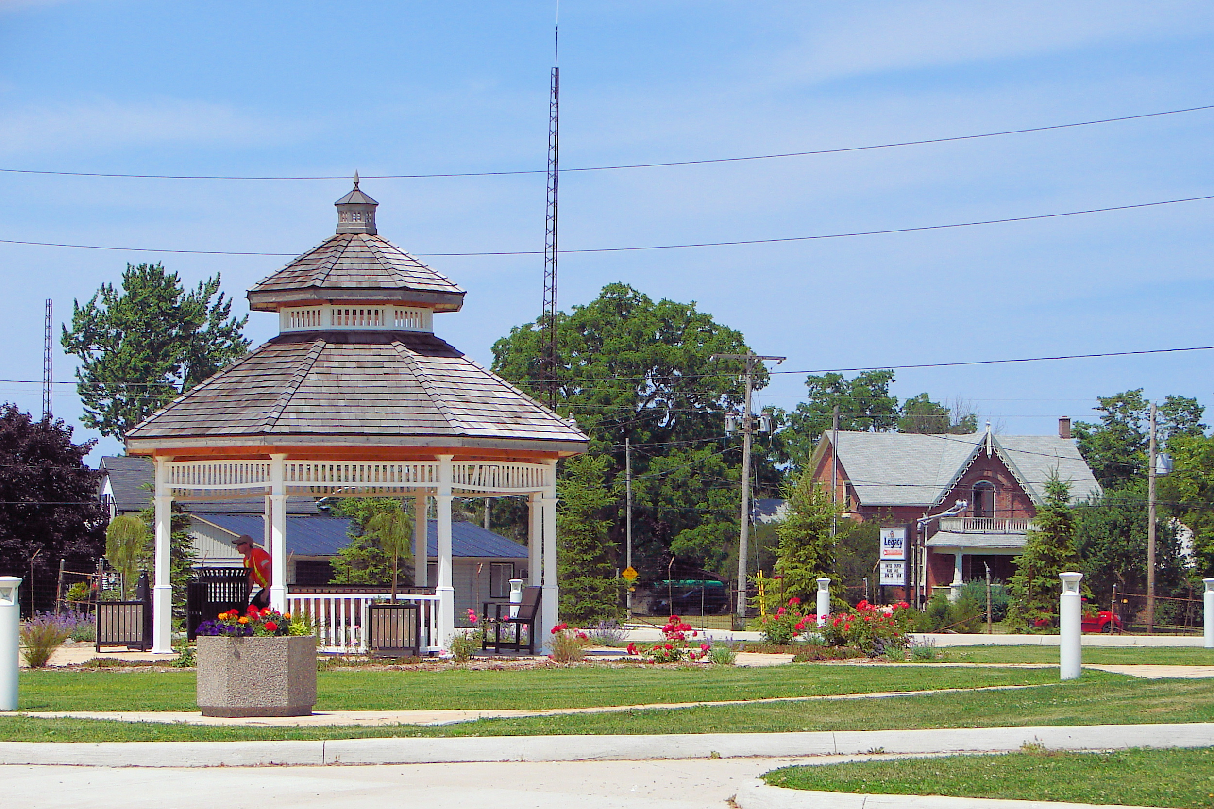 Thedford (City of Lambton Shores), Ontario, Canada